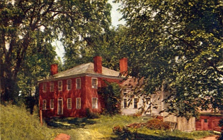 Burbank's Birthplace, Lancaster, Mass., USA